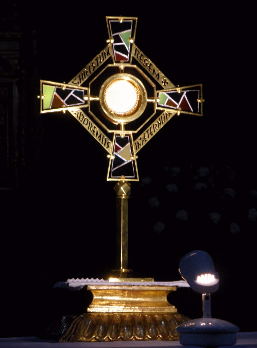 Ostensorio en el altar mayor de la iglesia del Monasterio de Santa Clara de Bidaurreta (Oñate)